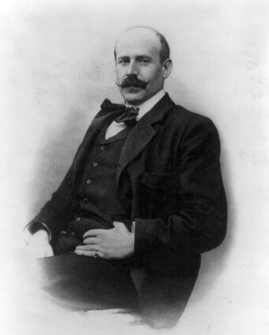 Photoengraving of Ignacio Zuloaga, half-length portrait, facing left